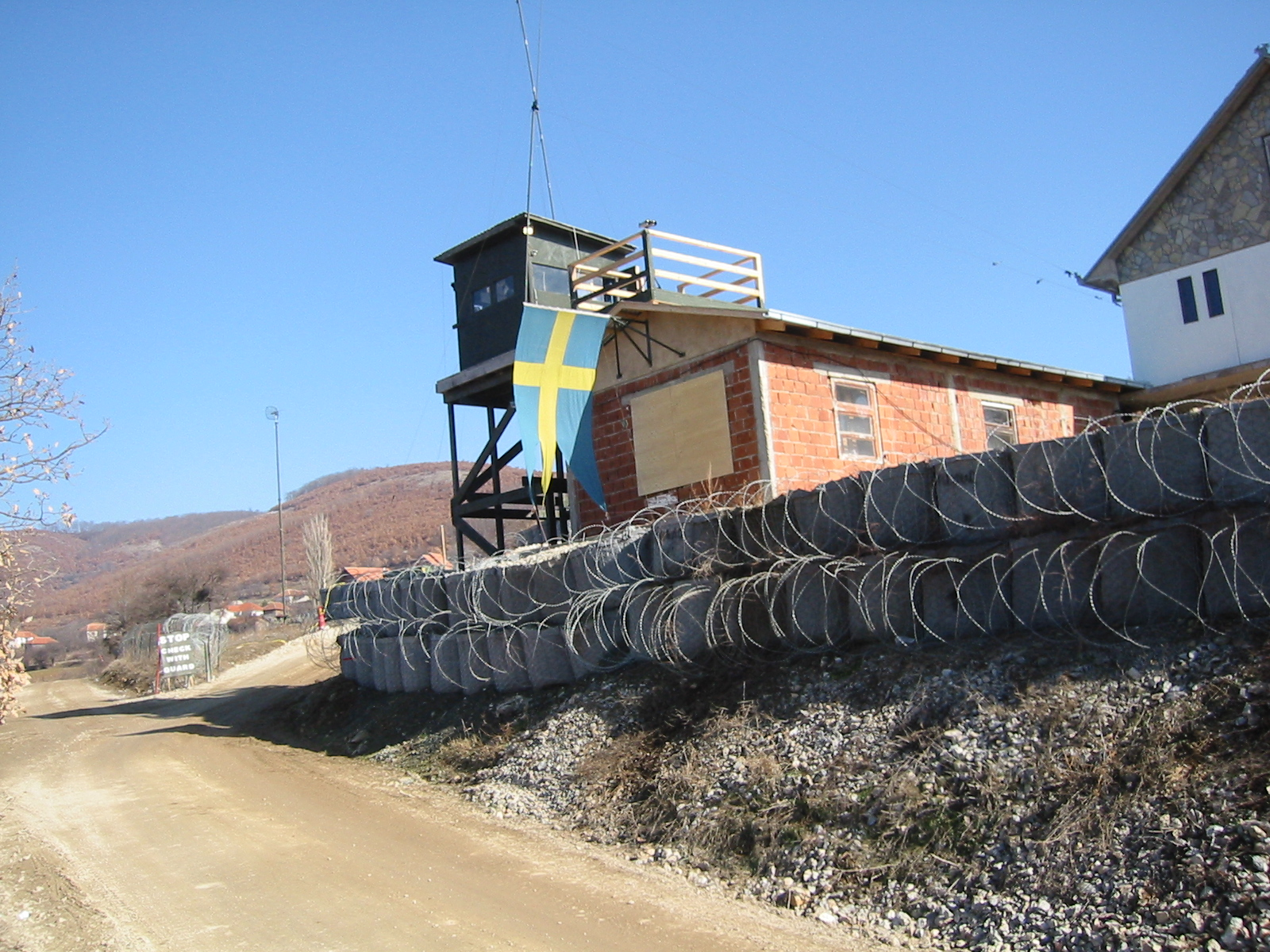 Spy Bar Kosovo